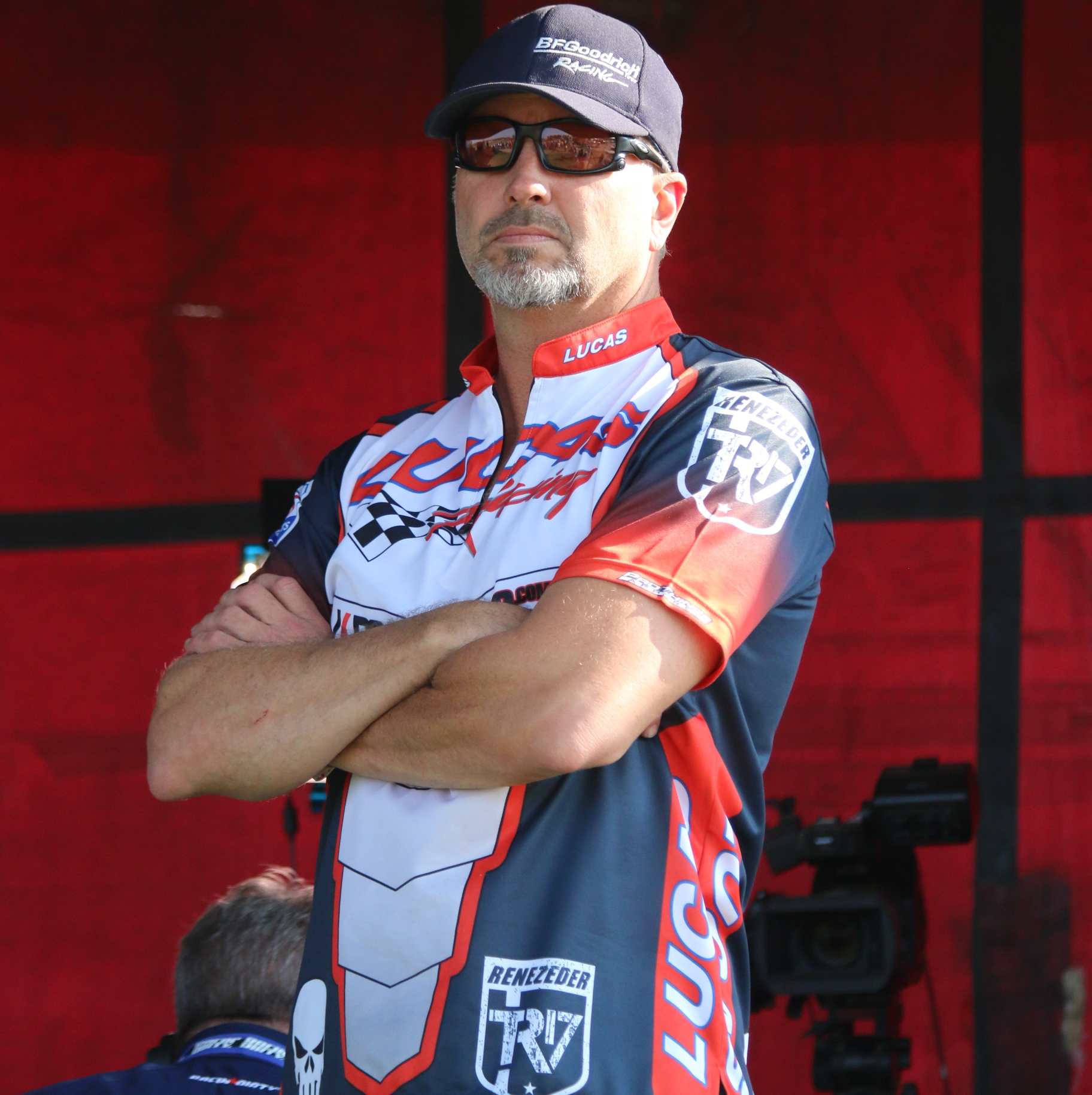 off-road racer Carl Renezeder at Crandon International Off-Road Raceway during his retirement season